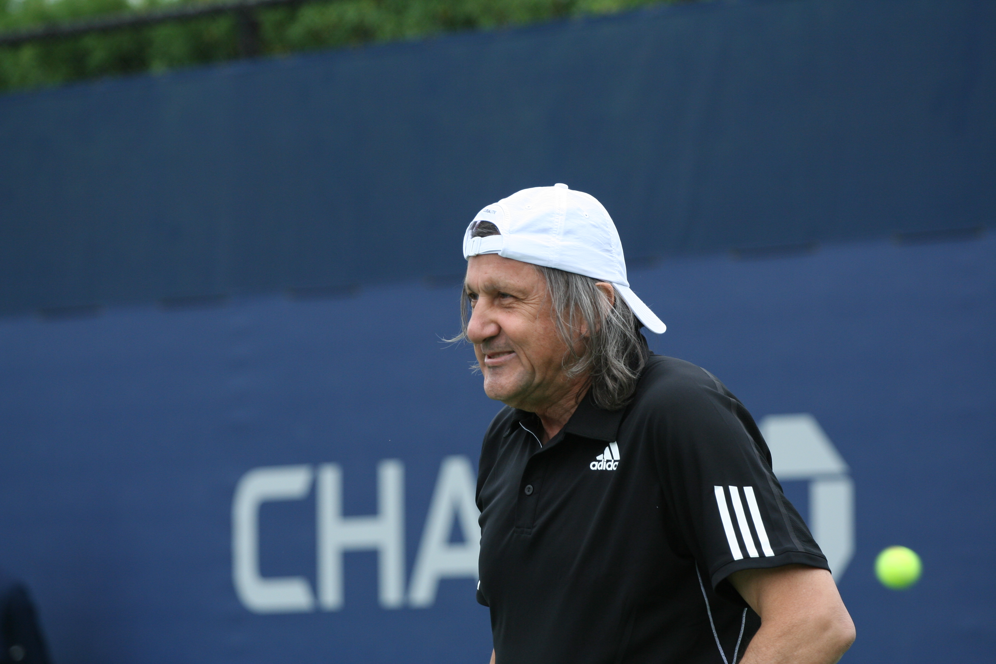 U.S. Open Champions Team Tennis Thursday, Sept. 10, 2009